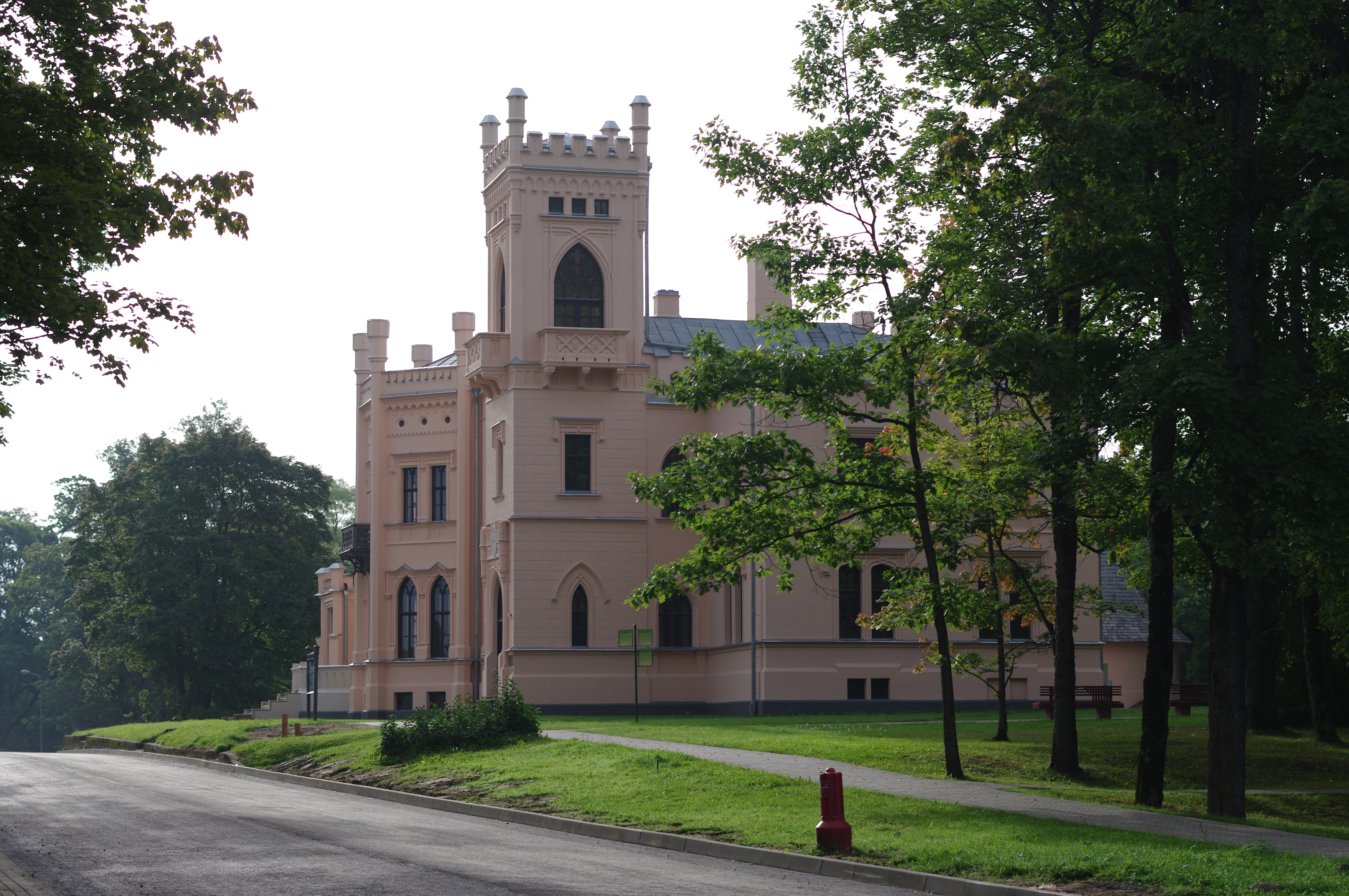 This photo was taken during a Wikiexpedition set up by Wikimedia Eesti. You can see all photographs in category WMEE-LV2013.